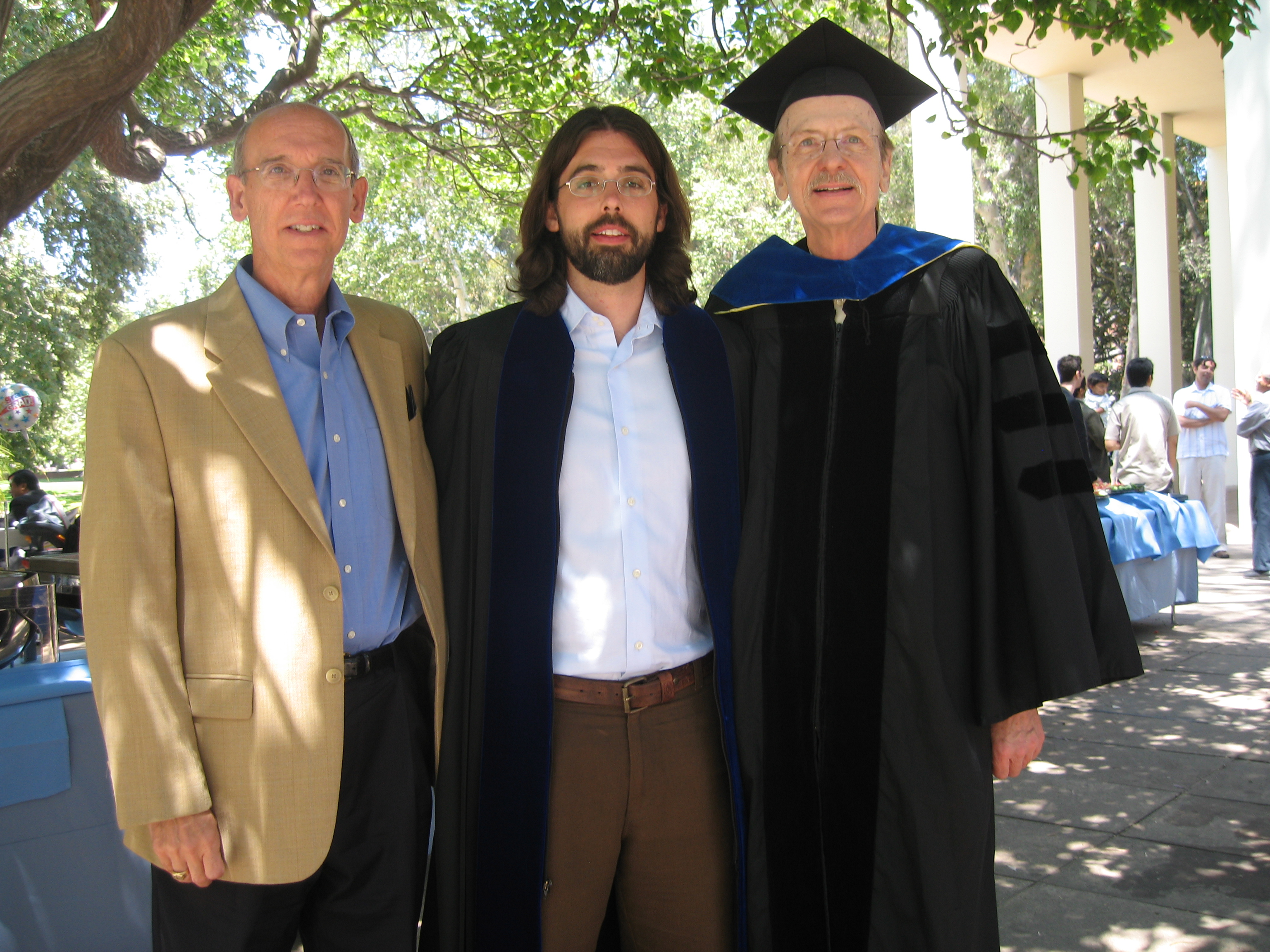 Donald Baucom at Brian Baucom's UCLA graduation